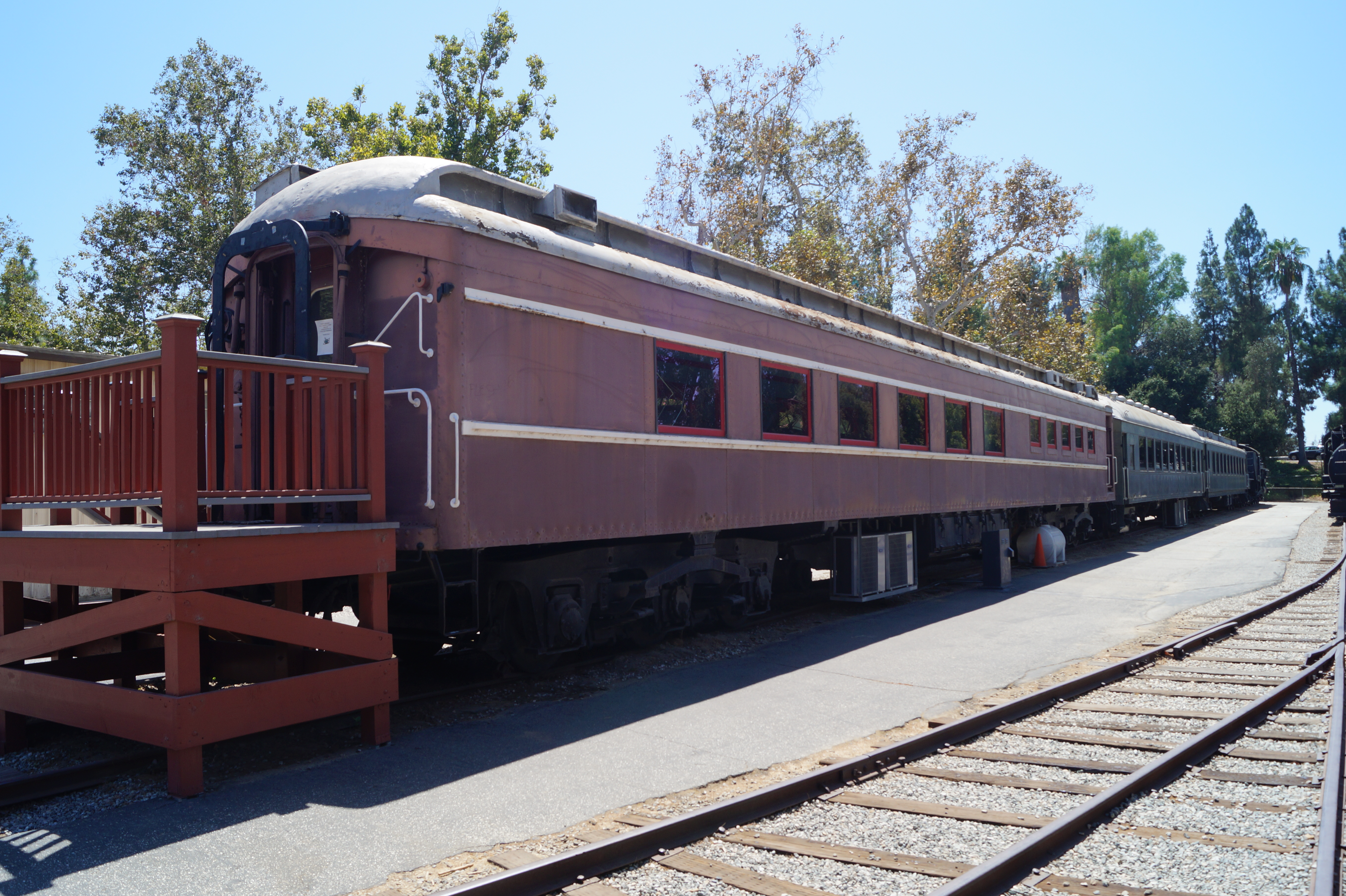 Travel Town Museum is a transport museum dedicated in the northwest corner of Los Angeles, California's Griffith Park. The history of railroad transportation in the western United States from 1880 to the 1930s is the primary focus of the museum's collection, with an emphasis on railroading in Southern California and the Los Angeles area.